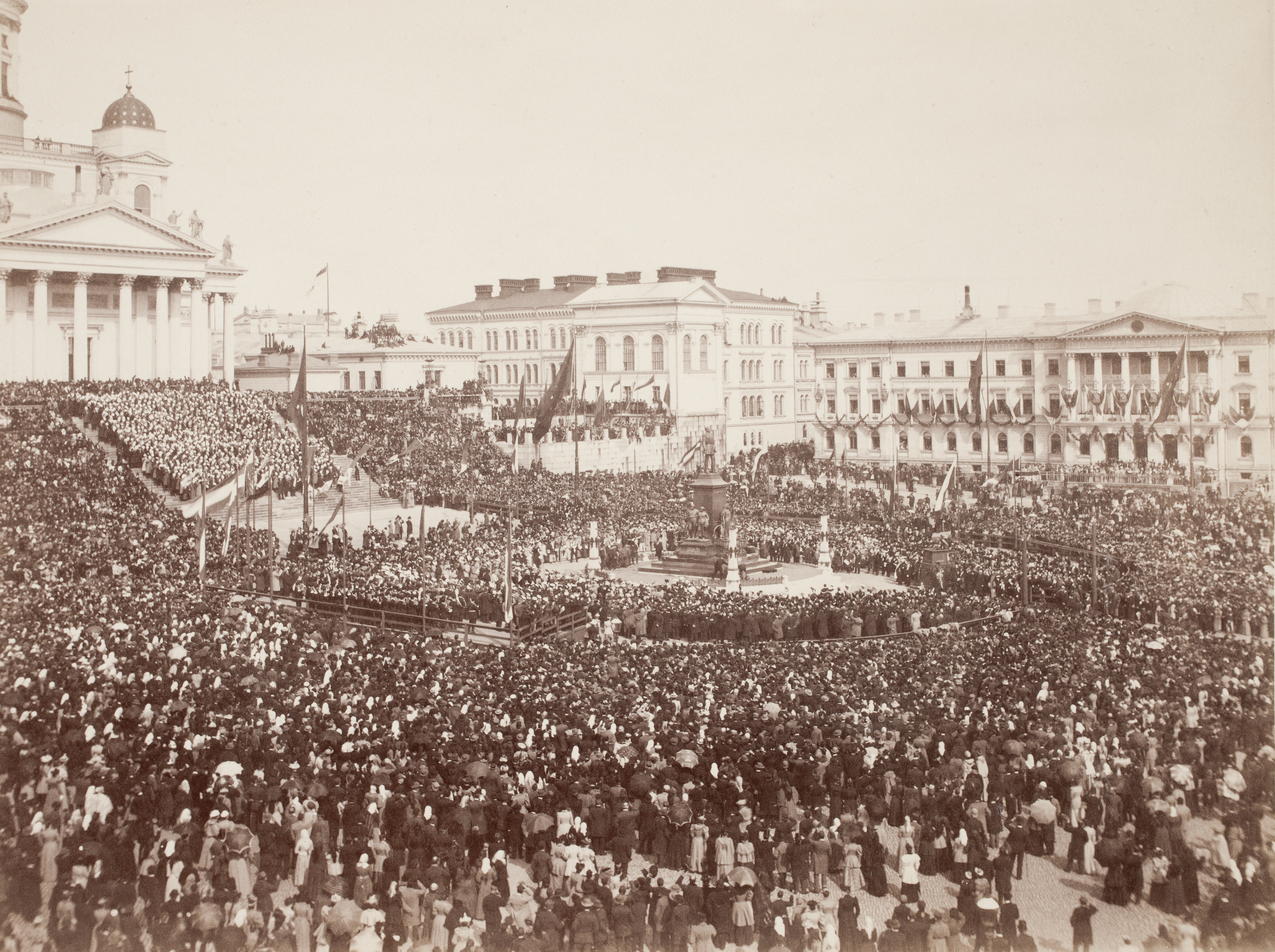 Avtäckningen av Alexanderstatyn i Helsingfors 29.4.1894 (22,5x17 cm) på kartong Foto: Atelier K. E. Ståhlberg Helsingfors, Finland Svenska litteratursällskapet i Finland